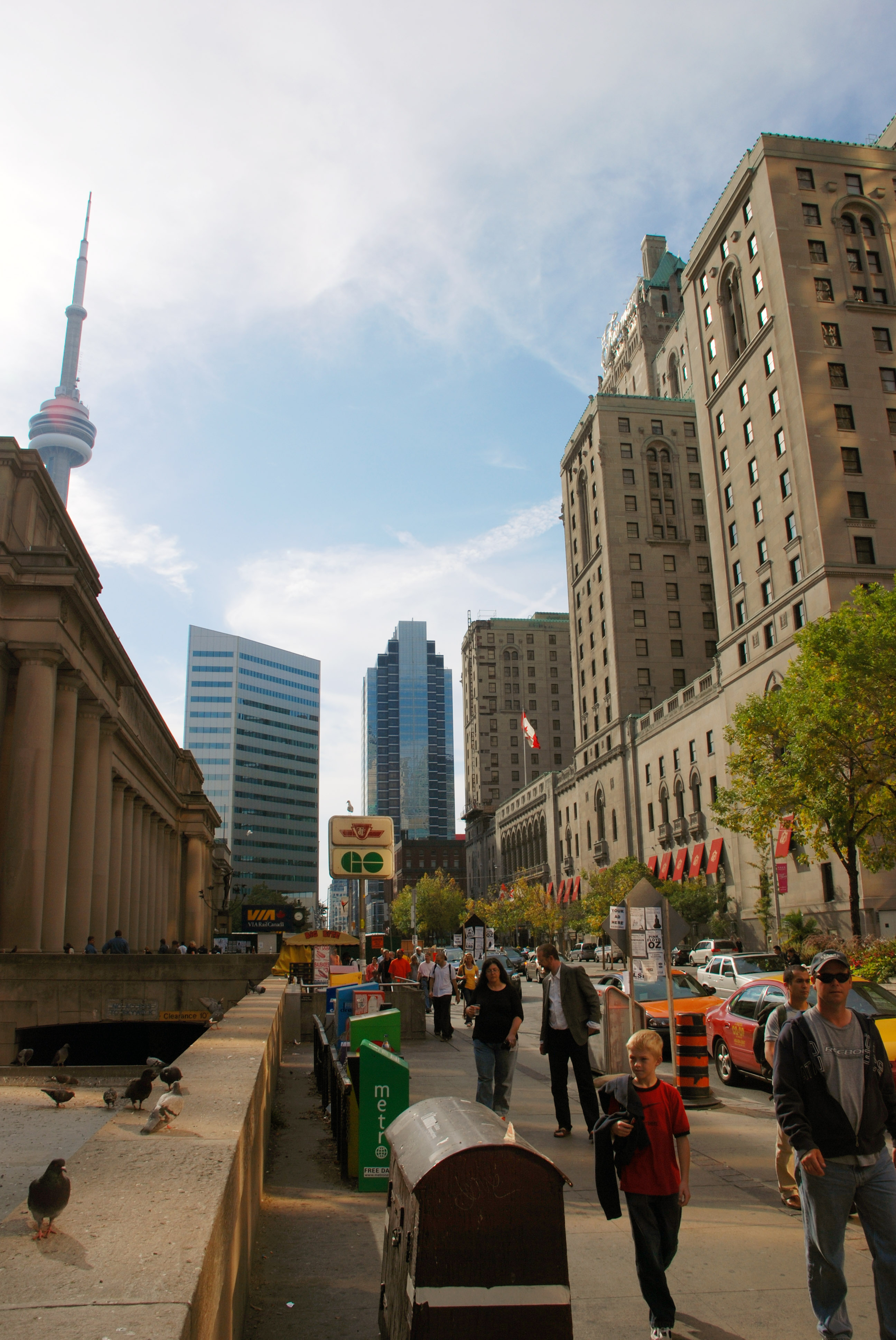 Front Sreet in front of Union Station looking west